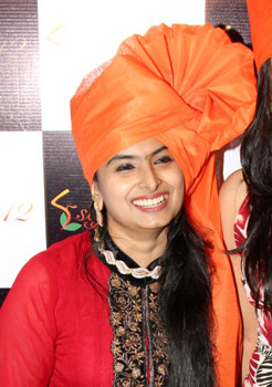 Swapna Patker and Hrishitaa Bhatt at the launch of Saffron 12